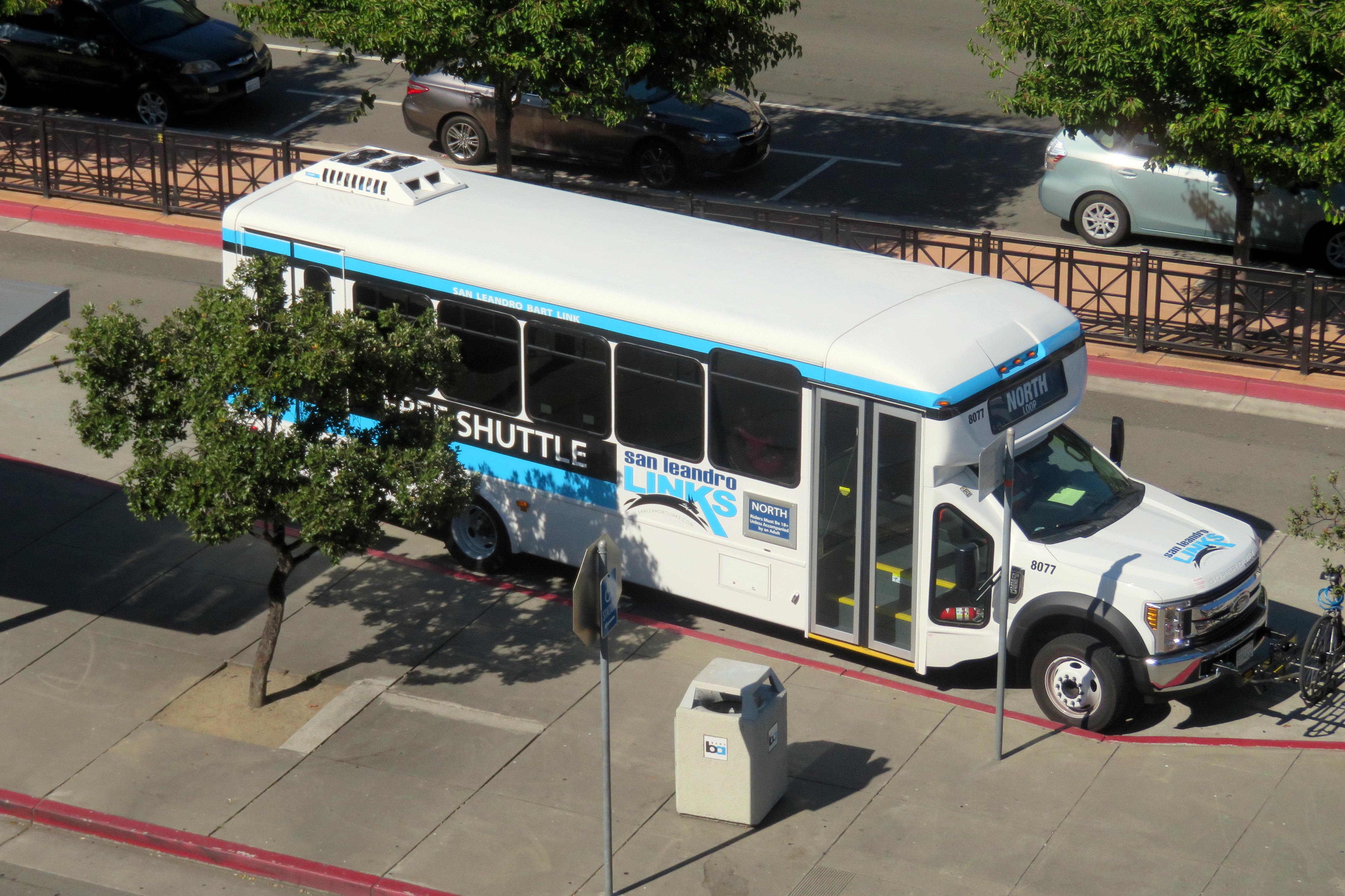 San Leandro LINKS bus at San Leandro station in July 2019